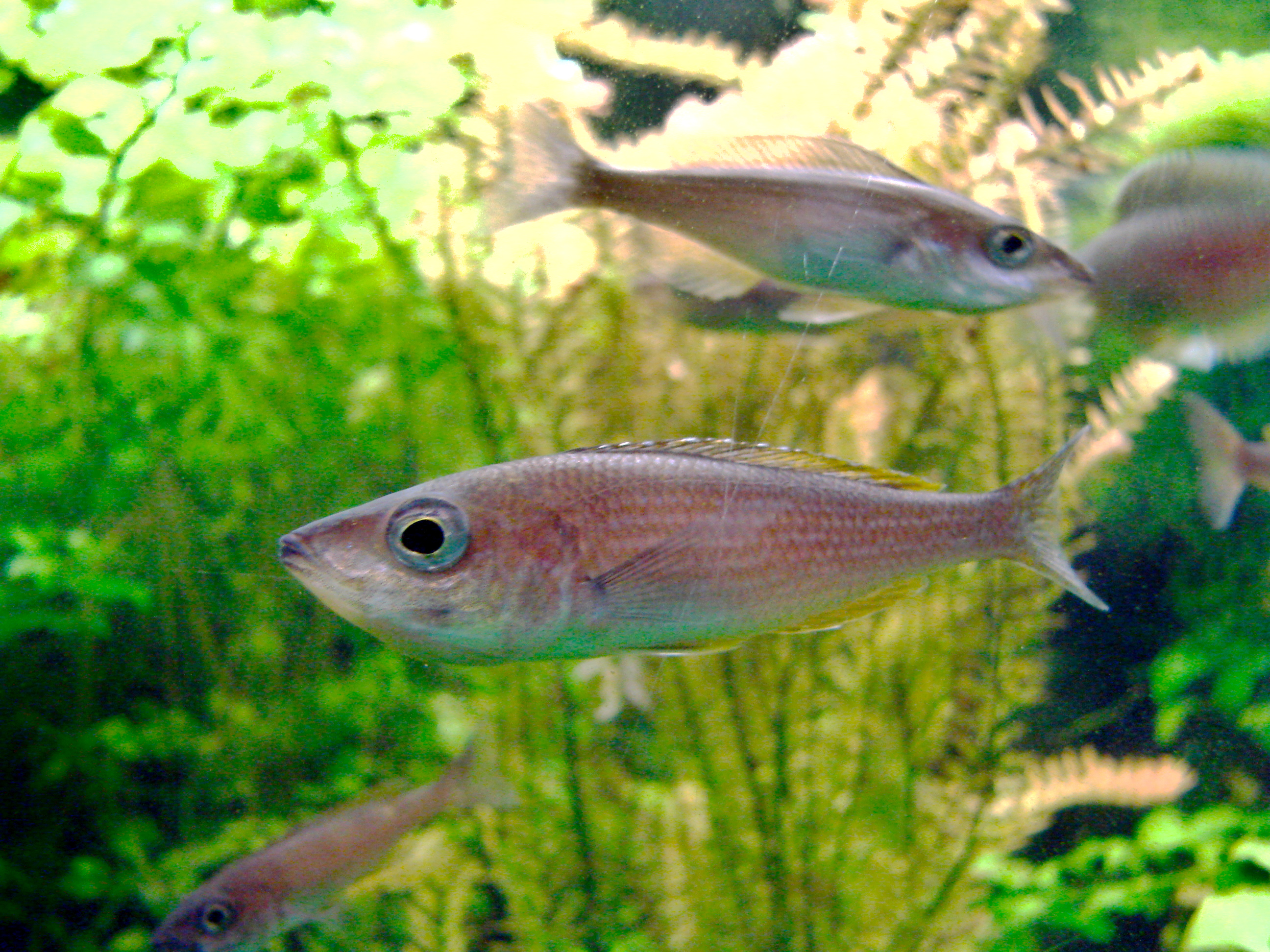 Picture taken in the zoo of Wrocław (Poland): Cyprichromis leptosoma (Boulenger, 1898)